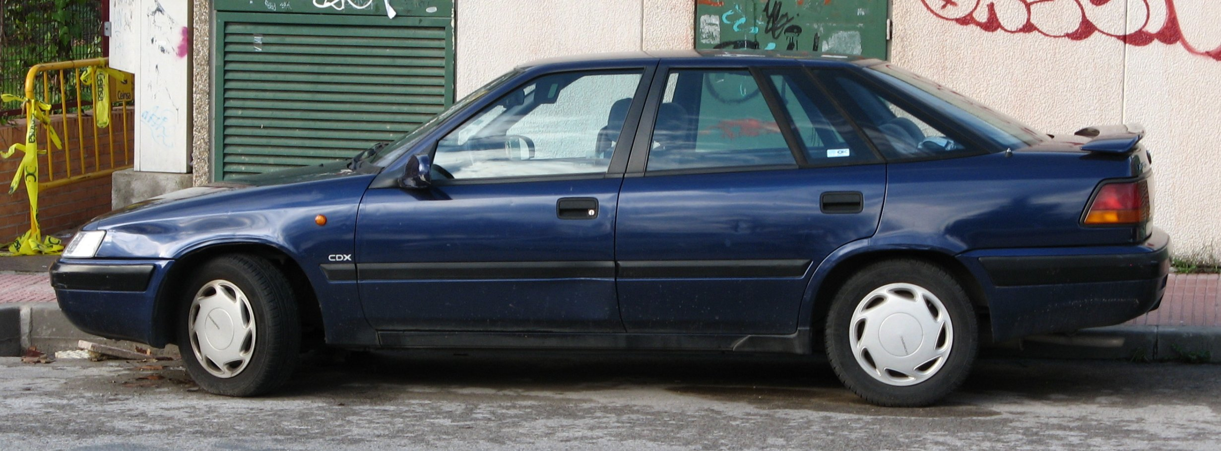 Daewoo Espero Aranos